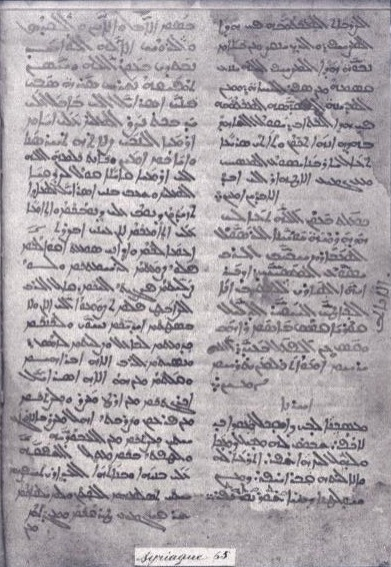 The first folio from the Garshuni (i.e. Arabic text written with Syriac characters) manuscript containing the work known as The History of the Captivity in Babylon.